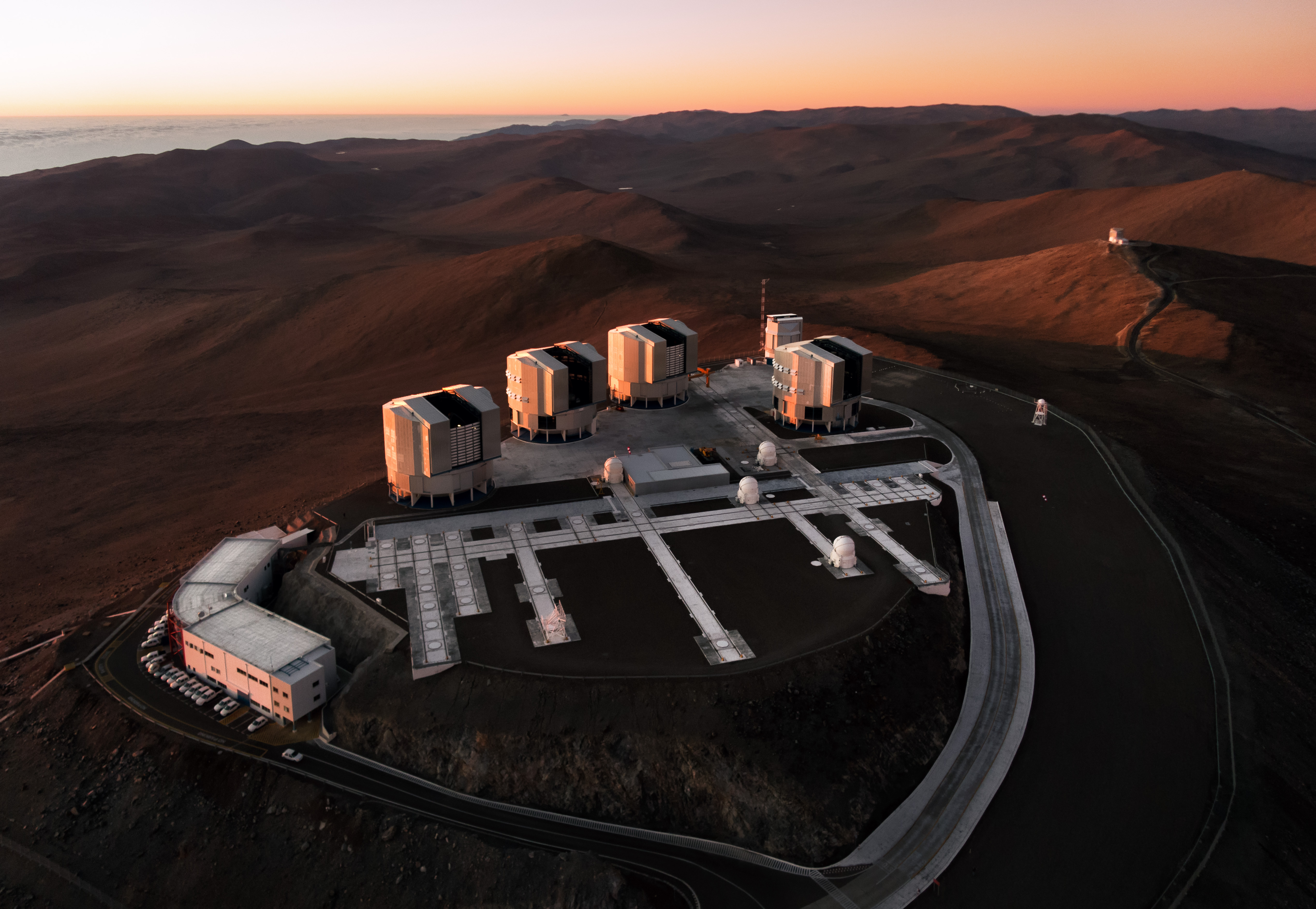 This remarkable image was taken using a quadcopter, hovering high above the Atacama. Ocean, cloud and desert come together to form the aerial scene, stretching out along the Chilean coast. ESO’s Very Large Telescope (VLT) is softly illuminated by the Sun as it sets in the evening sky, throwing hues of orange and apricot across the observatory. On an adjacent peak towards the right of the frame, the 4.1-metre Visible and Infrared Survey Telescope for Astronomy (VISTA) stands apart, cutting a more solitary figure. The region in front of the VLT, filled with a lattice-like grid of rails, is used by the four small movable VLT Auxiliary Telescopes. Placing these telescopes at different distances apart adjusts the effective size of the VLT Interferometer, which acts as a single giant stargazer.